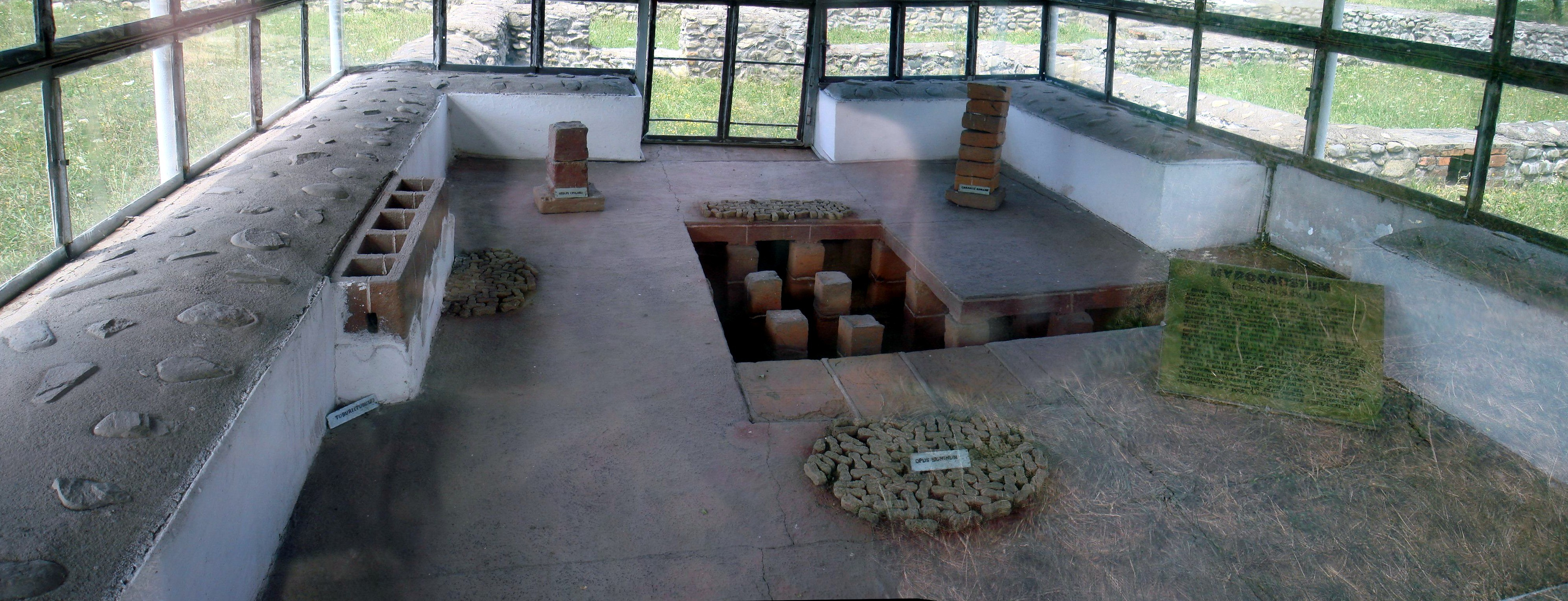 The hypocaust from castra Jidova, Argeș County, Romania